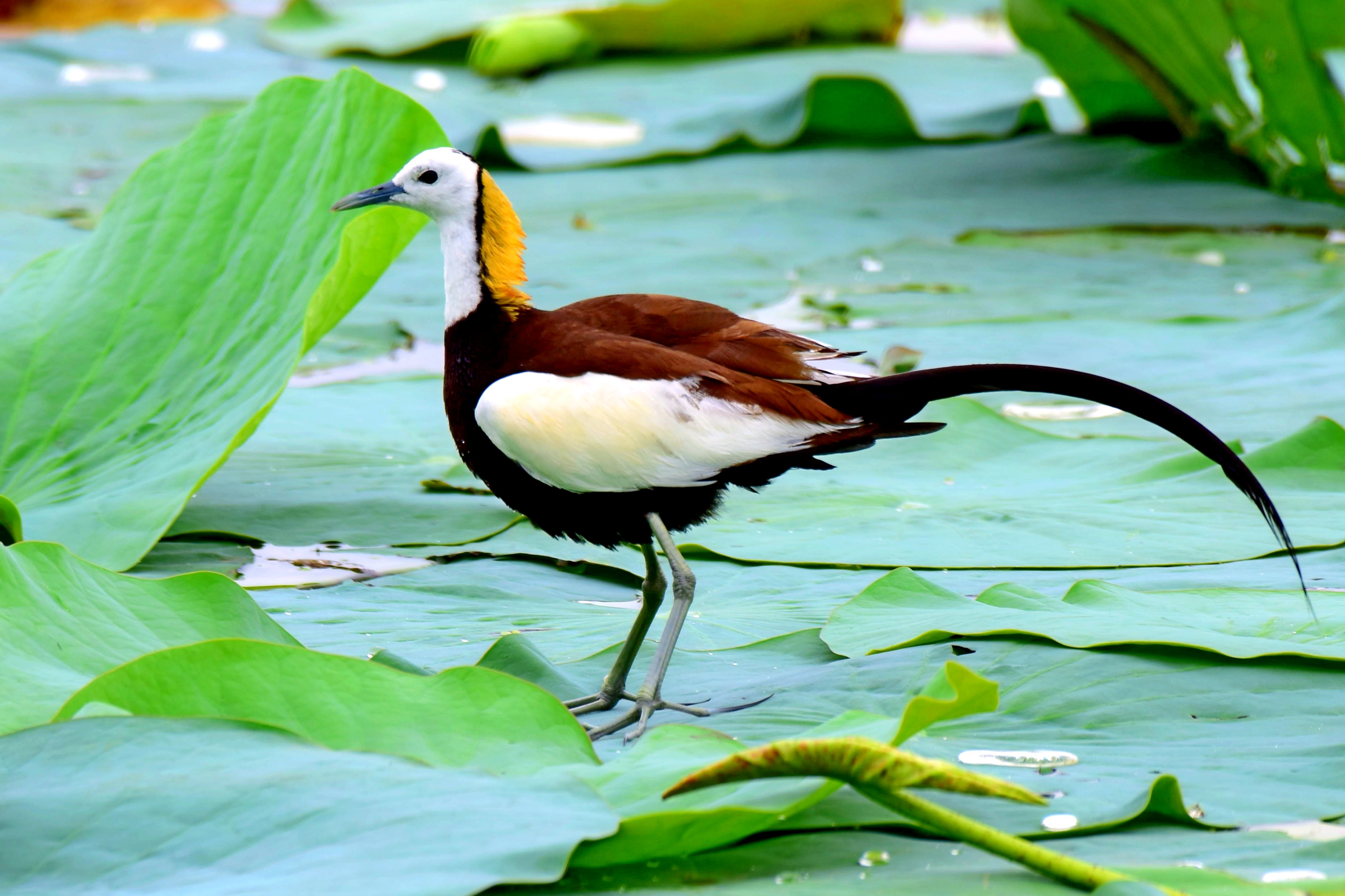 Pheasant tailed Jacana from Unknown location